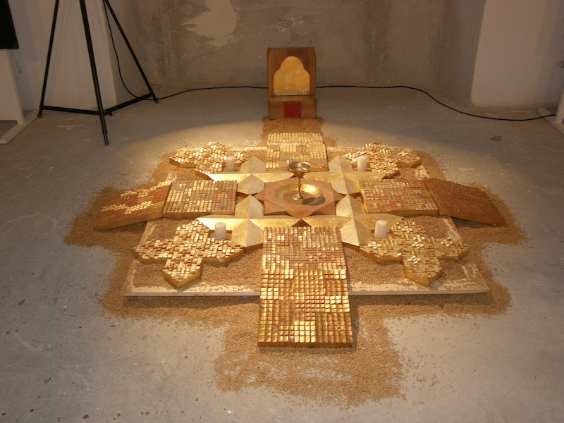 Expoziție (Silviu Oravitzan)